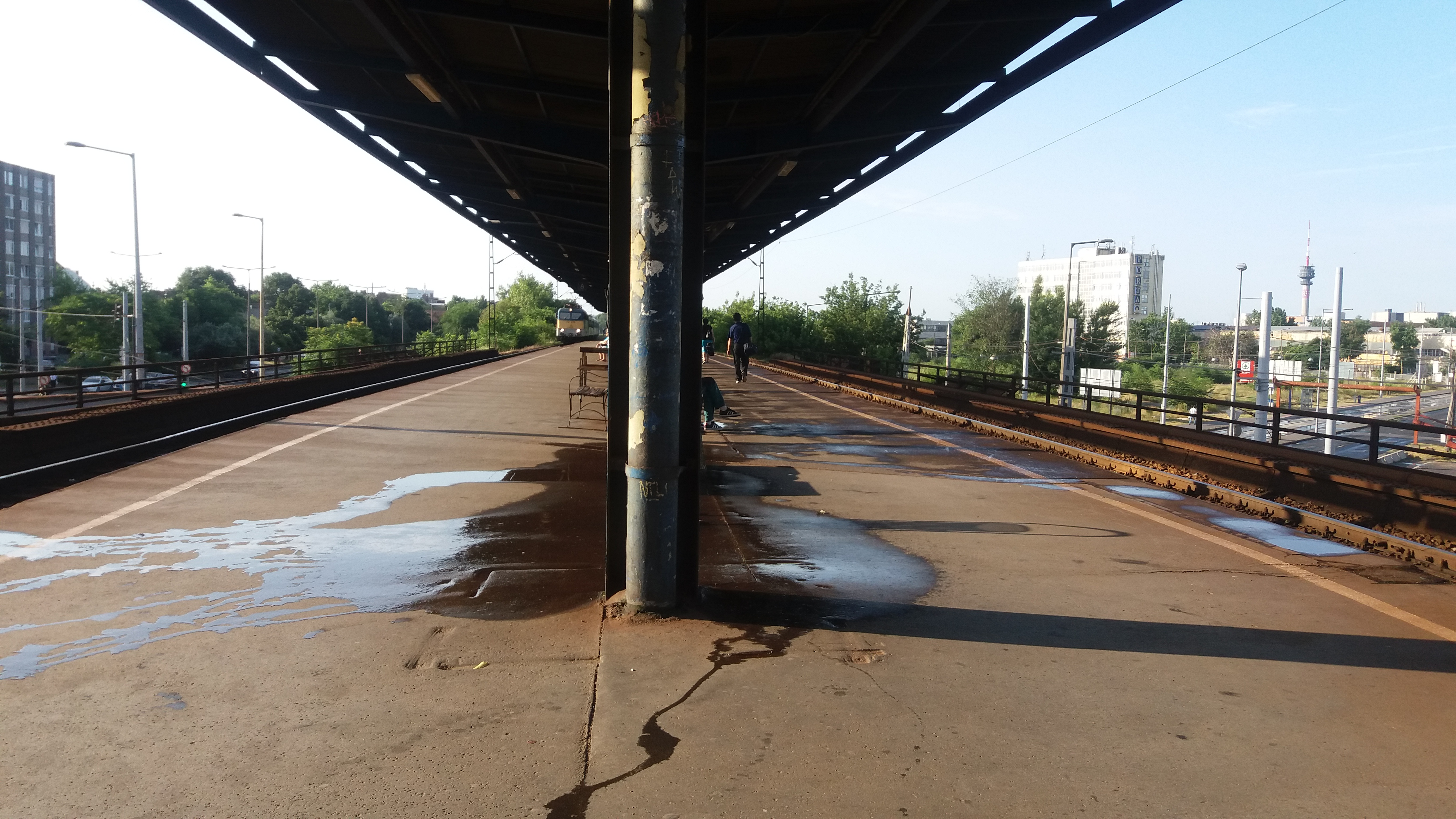 Kőbánya alsó railway station